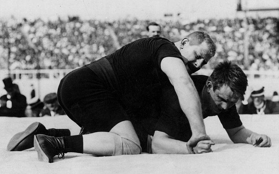 The 1908 Olympic Greco-Roman Super Heavyweight wrestling, The Hungarian wrestler, Richard Weisz (who won gold) and the Russian, Aleksandr Petrov (who won silver)